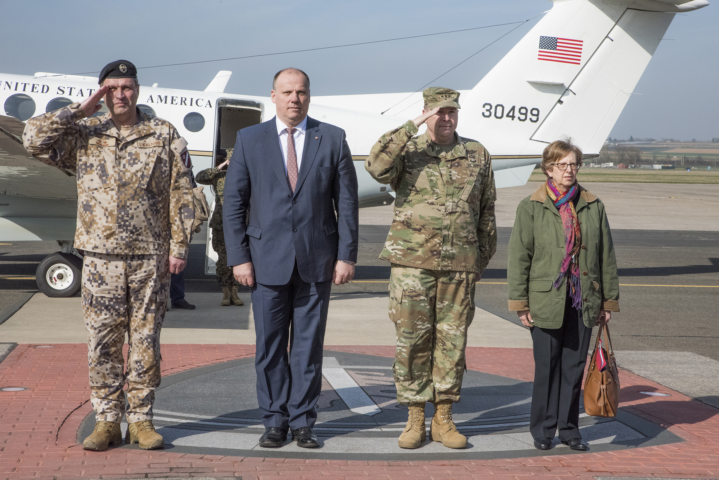 Pictured from left to right: Maj. Gen. Leonids, Latvian Chief of Defense; Hon. Raimonds Bergmanis, Latvian Minister of Defense, Lt. Gen. Ben Hodges, commander of U.S. Army Europe and Nancy Pettit, U.S. Ambassador to Latvia renders honors during the playing of the national anthem, March 16, 2017. The visit focuses on the reaffirmation of the U.S. Army Europe-Latvia relationship; security operations; regional security in the Baltics and Latvian troops participating in Exercise Allied Spirit VI. Approximately 2,770 participants from 12 nations will participate in Exercise Allied Spirit VI at the 7th Army Training Command's Hohenfels Training Area in southeastern Germany, March 8-31. In this exercise, Latvia will command the brigade headquarters.